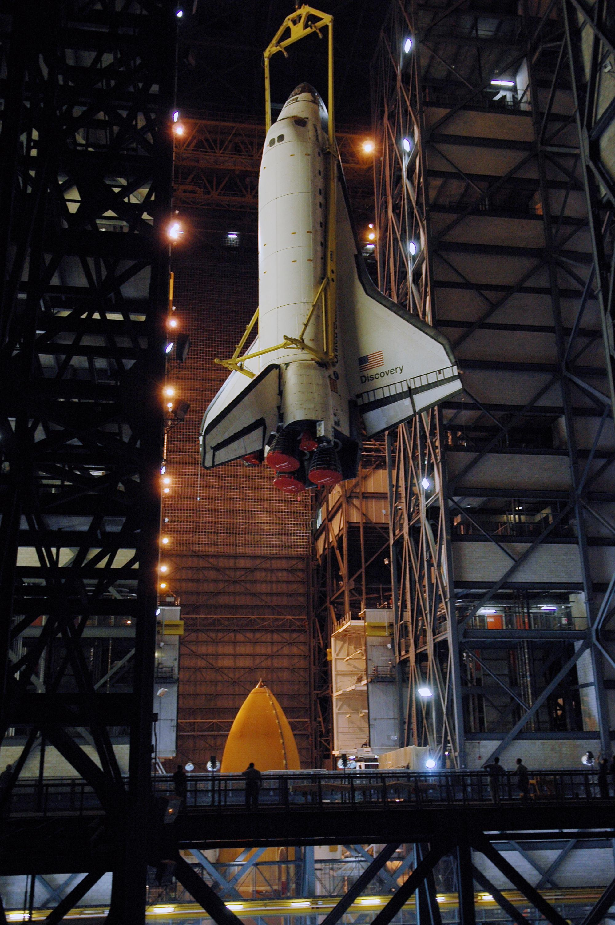 KENNEDY SPACE CENTER, FLA. -- The orbiter Discovery is being lowered into high bay 3 of the Vehicle Assembly Building. Below it is the tip of the external tank, which is installed on the mobile launcher platform below. Discovery will be stacked with the tank and solid rocket boosters for launch. Space Shuttle Discovery is scheduled to roll out to Launch Pad 39B no earlier than Nov. 7 for mission STS-116. The mission is No. 20 to the International Space Station and construction flight 12A.1. The mission payload is the SPACEHAB module, the P5 integrated truss structure and other key components. The launch window for mission STS-116 opens Dec. 8.